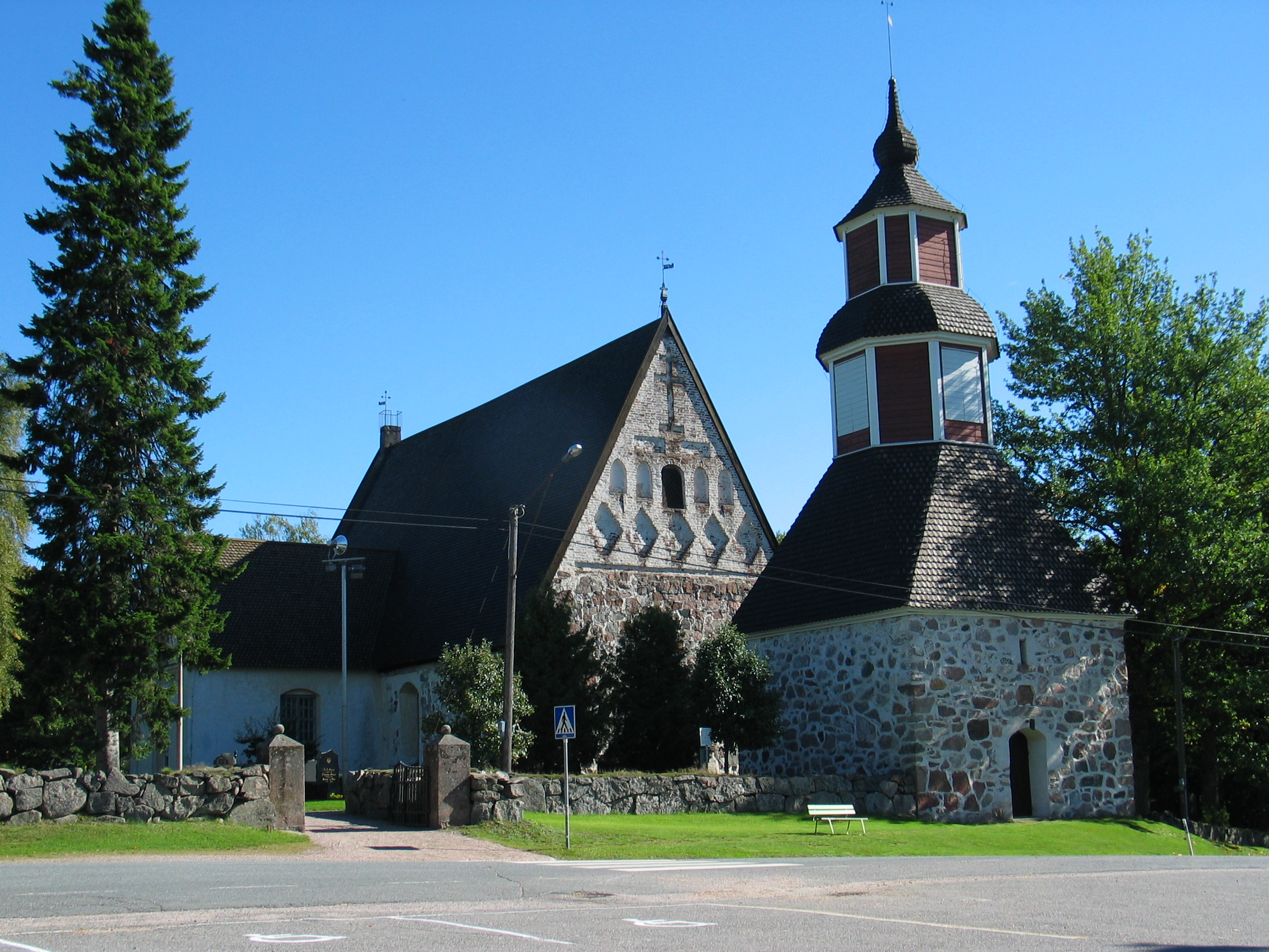 Church of Saint Lawrence in Janakkala, Finland